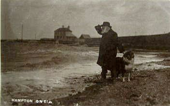 Postcard of Edmund Reid at Hampton-on-Sea, Herne Bay, Kent, England in 1912. Reid had retired in 1898, having been head of CID in the Metropolitan police, and his most famous case was the Whitechapel murders in 1888. He moved to Hampton-on-Sea which was lost to sea erosion by 1916. He died in 1917. This is understood to be a scan of the original exposure of the original damaged negative by Fred C. Palmer, so it would be inappropriate to attempt to correct this image. It is one of at least three 1912 experiments at exposure and composition of this negative by the photographer.